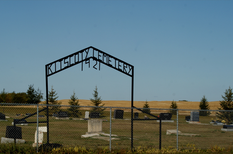 Kitscoty, Alberta